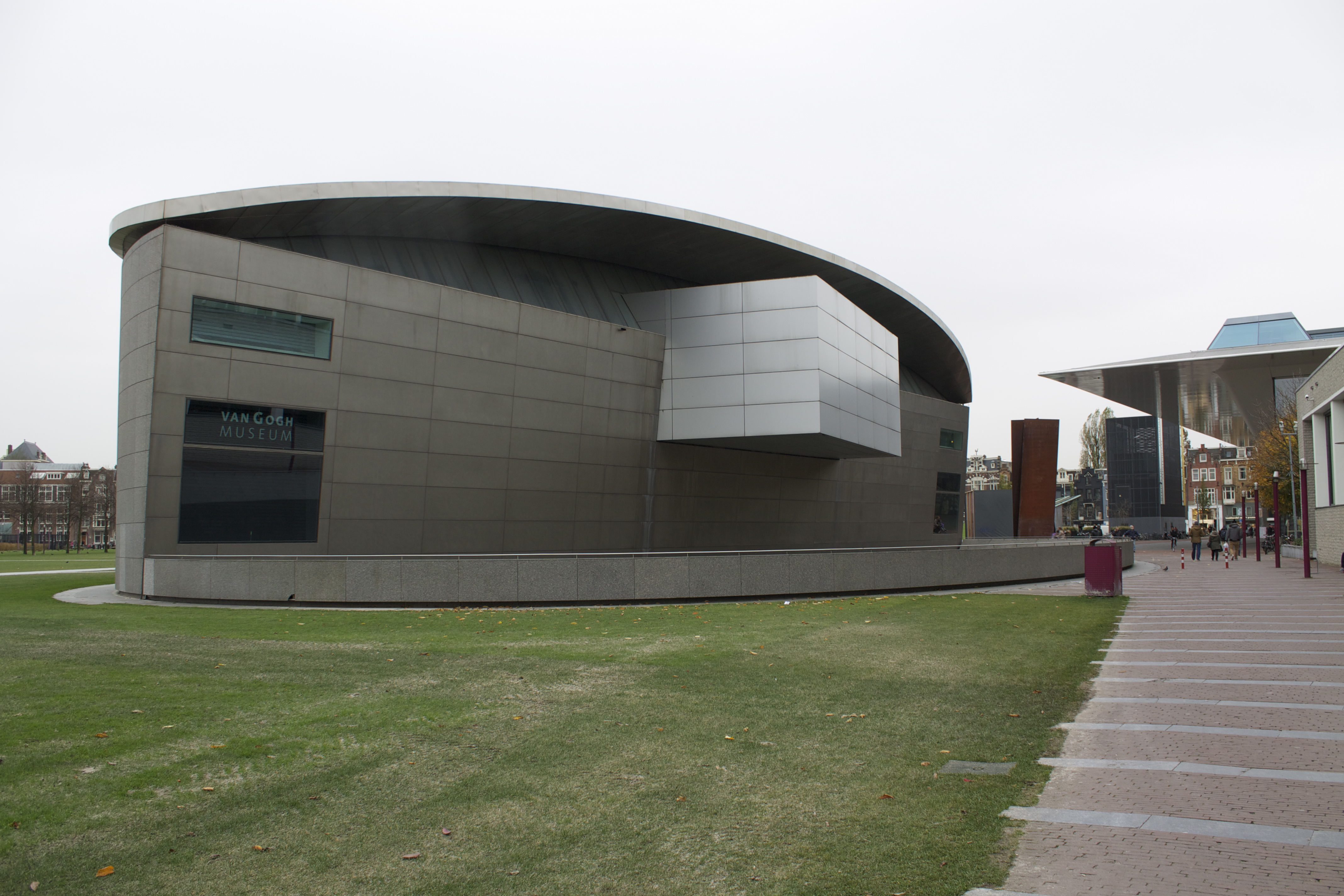 Van Gogh museum, Museumkwartier, Amsterdam, the Netherlands.